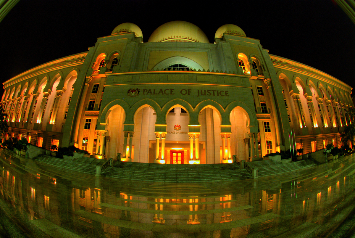 Palace of Justice, Putrajaya